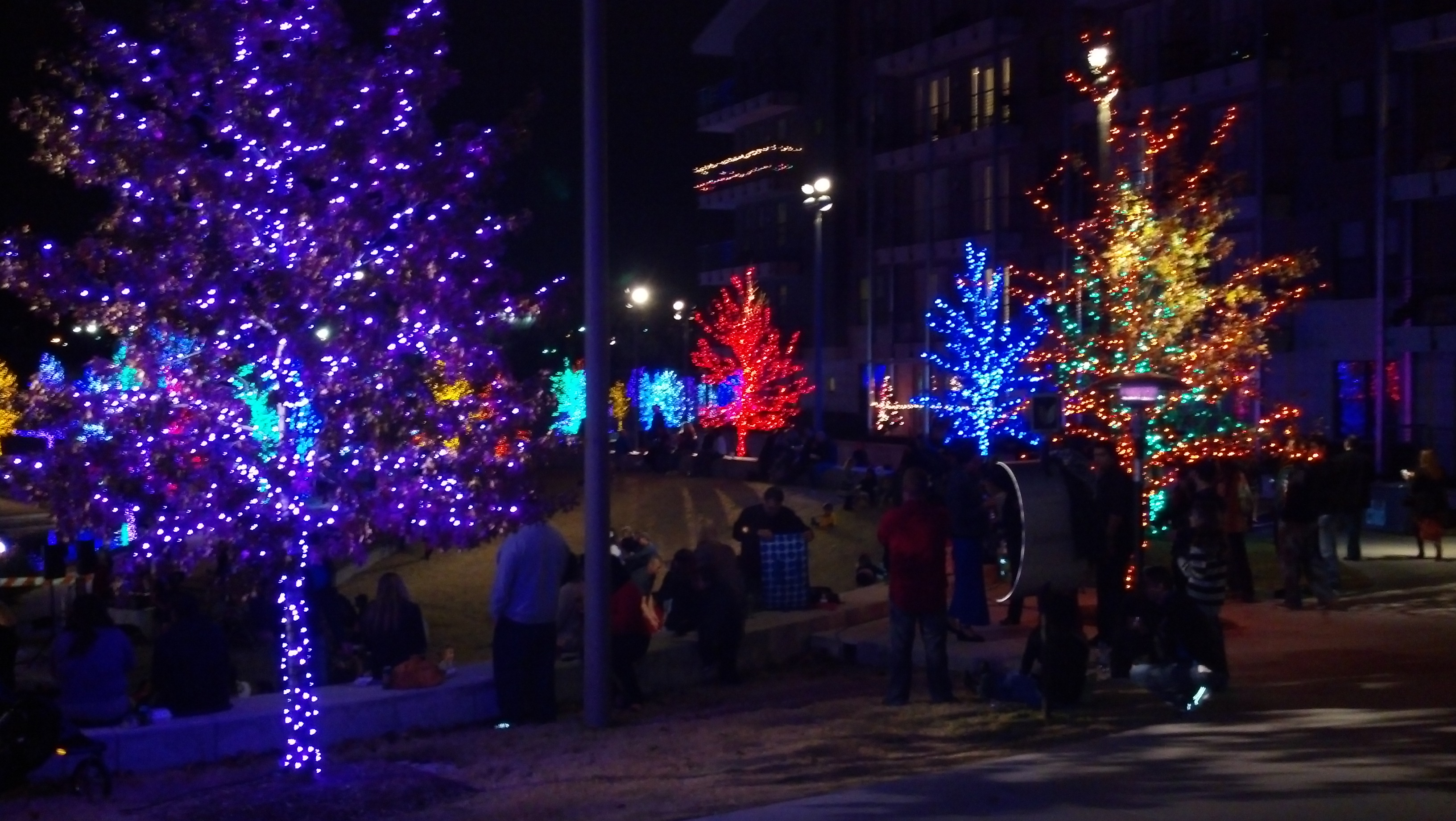 Street-side view from Vitruvian Way of Vitruvian Park facing south located near the lake court, with the Savoye Apartments in the background.